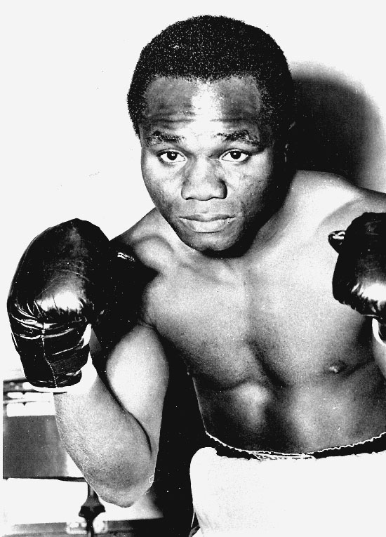 Image Of Hogan Bassey